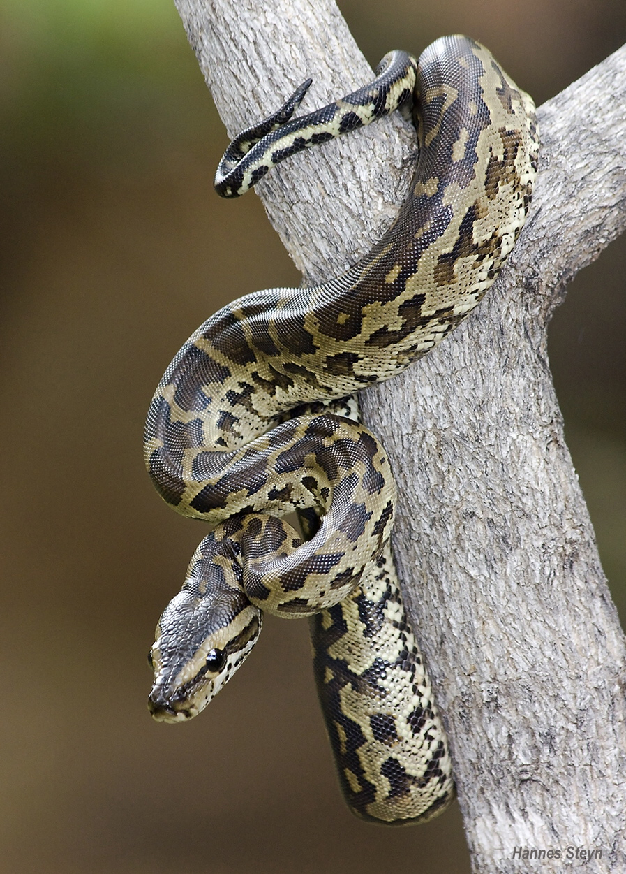 Baby Southern African Python (Python natalensis) at Koedoesdraai, Limpopo district, South Africa